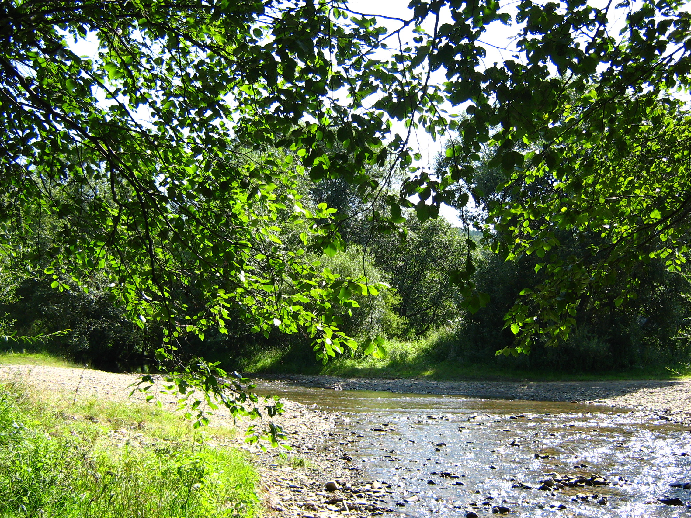 Wisłoka River near its spring. Poland.